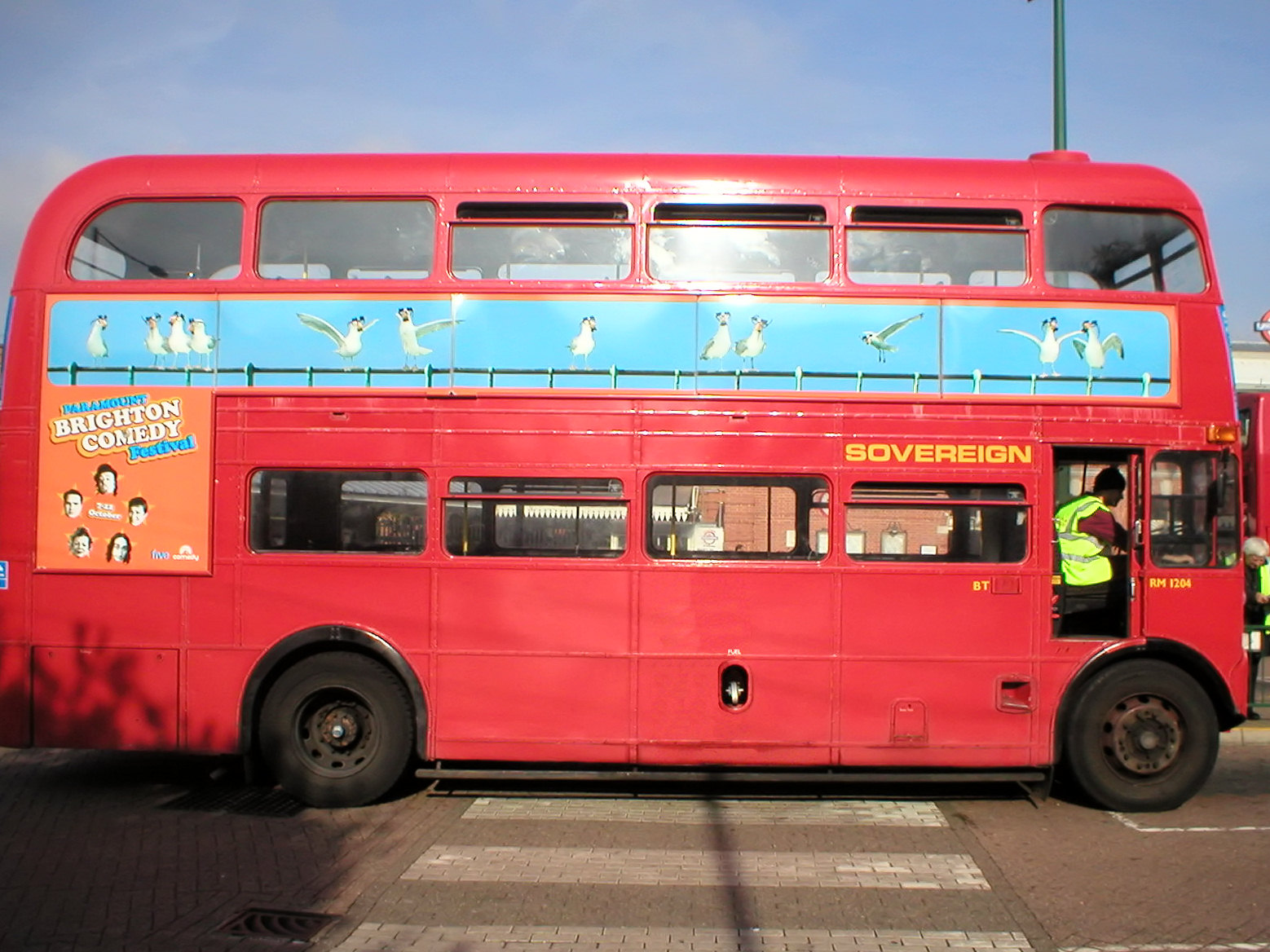 Sovereign Bus & Coach Routemaster bus RM1204 (reg. 204 CLT), operating route 13 and pictured at the terminus in Golders Green bus station, north west London. By this time, the 13 was one of only 3 Routemaster operated routes left in London, and it was converted to modern buses four days later, on 21 October 2005.